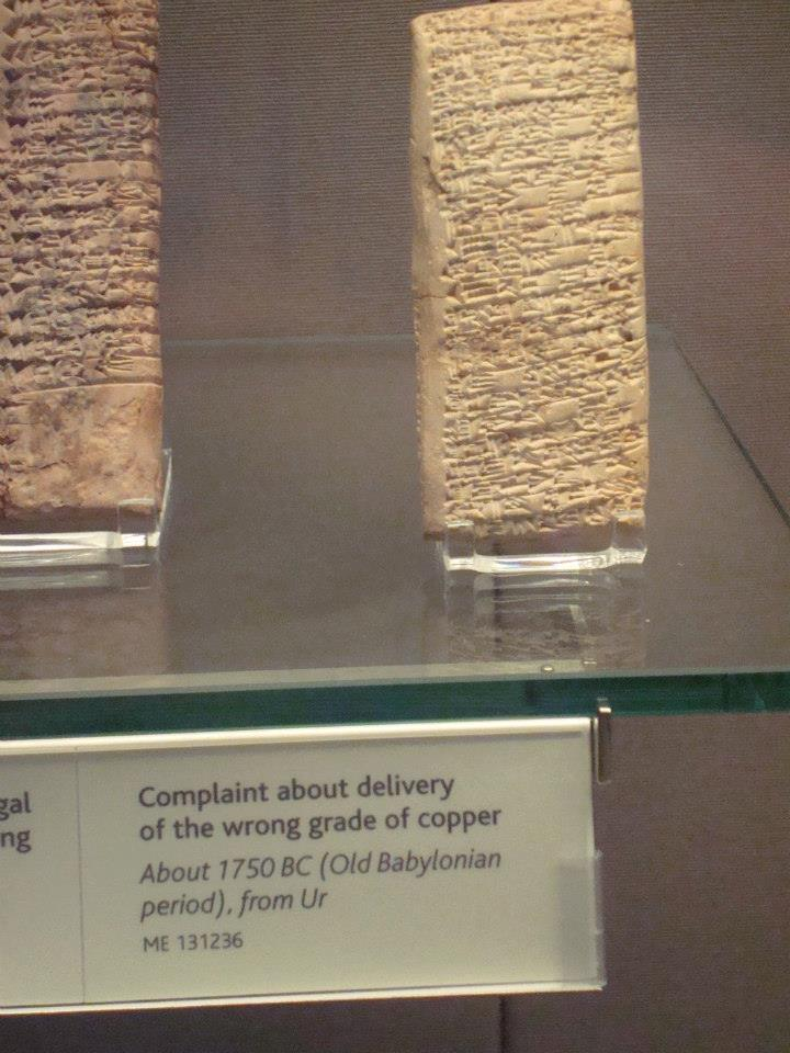 Cuneiform clay tablet to the merchant Ea-Nasir, complaining about delivery of the wrong grade of copper. c. 1750 BCE. Currently in the British Museum.